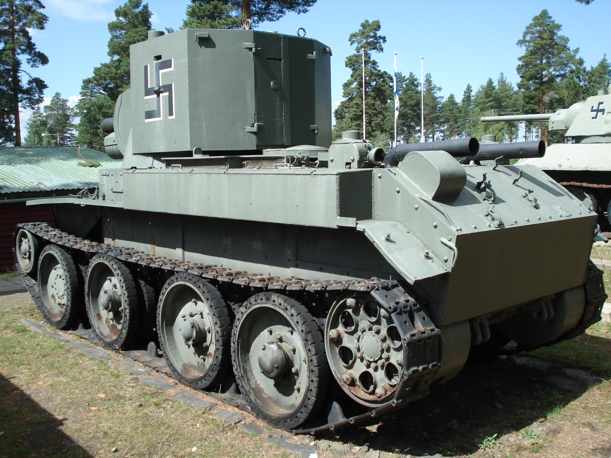 Finnish BT-42 assault gun, created by placing a turret armed with a 114 mm gun on the chasis of the Soviet BT-7 fast tank. As all the BT tanks captured by Finland were scrapped soon after 1945, this is the only surviving example of this family of tanks in any Finnish museum. Displayed in Finnish Tank Museum (Panssarimuseo) in Parola. Photo taken on July 14, 2006. Source: Photo by me, User:Balcer.